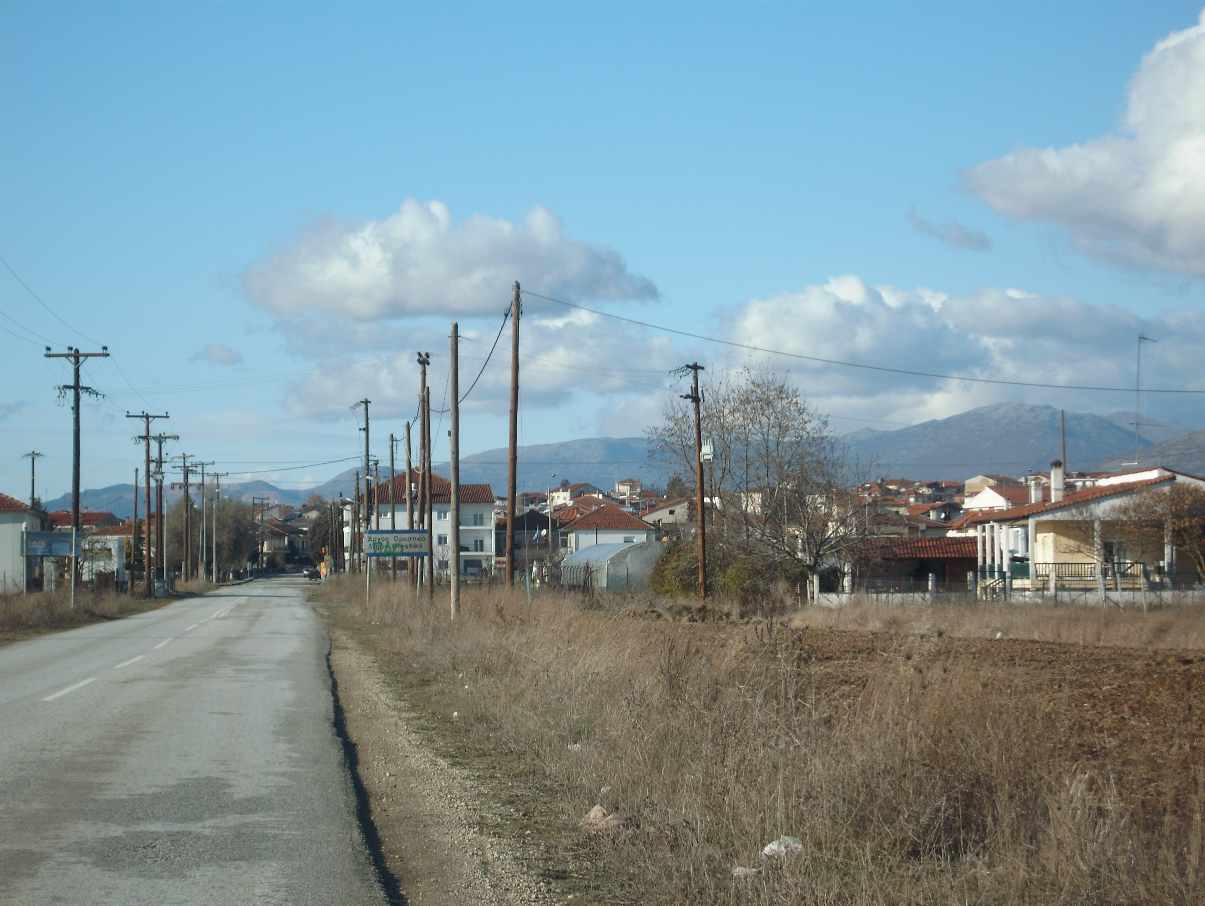 Hrupishta / Argos Orestiko